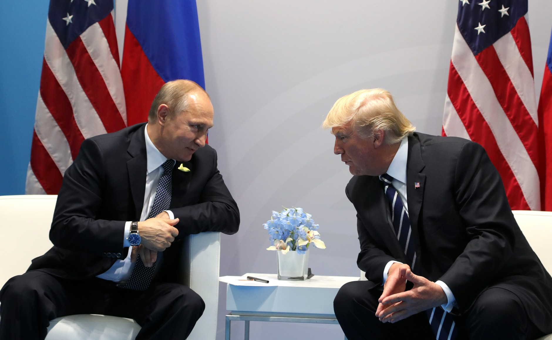 Vladimir Putin and Donald Trump meet at the 2017 G-20 Hamburg Summit